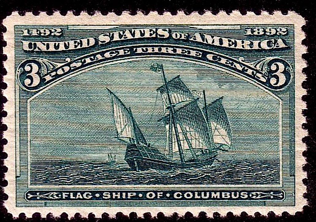 ~ Flagship Santa Maria ~ Issue of 1893. The 3¢ Columbian. ~ Flagship Santa Maria ~.